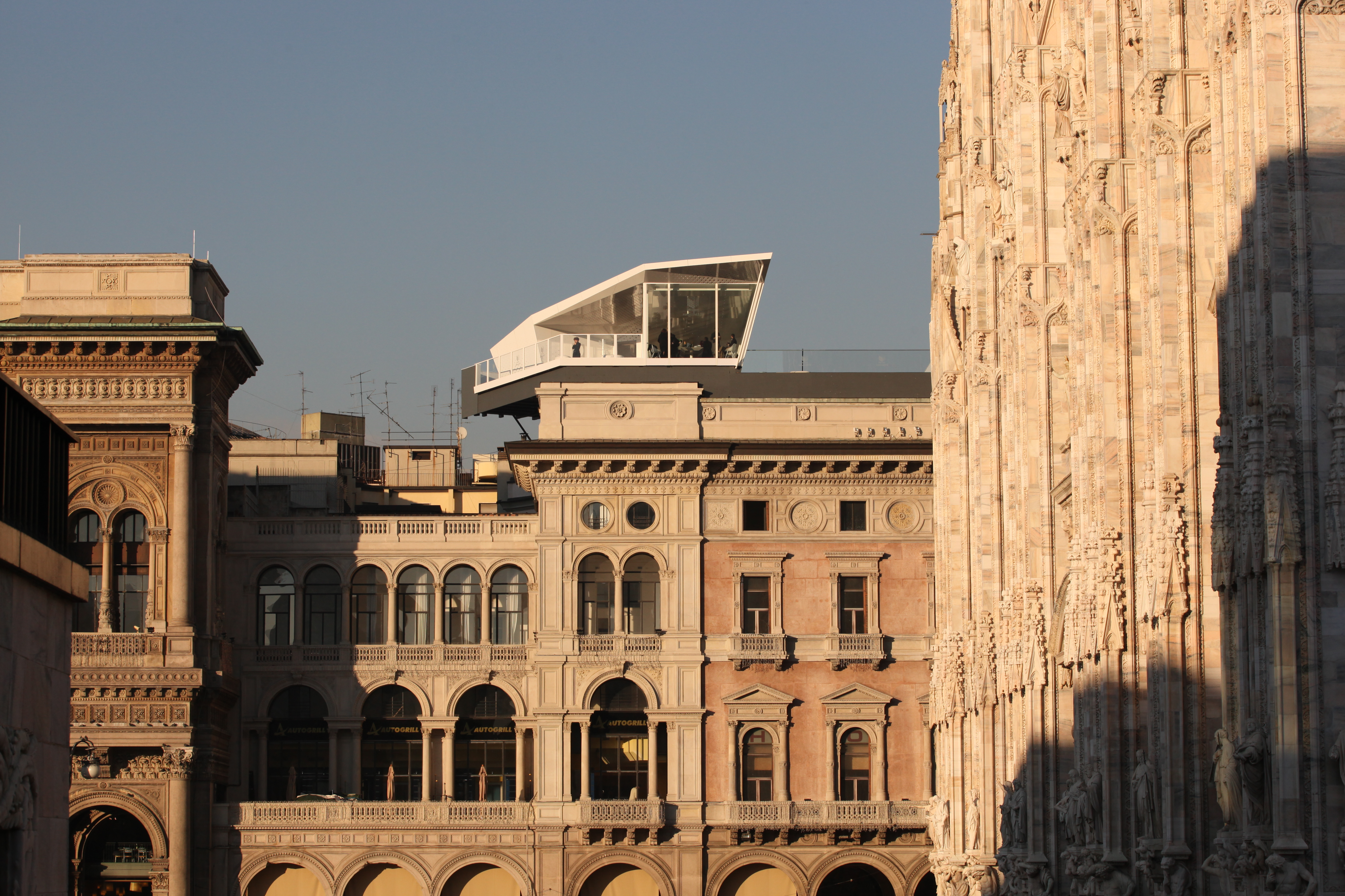 The Cube restaurant in Milan (piazza duomo) - Italy